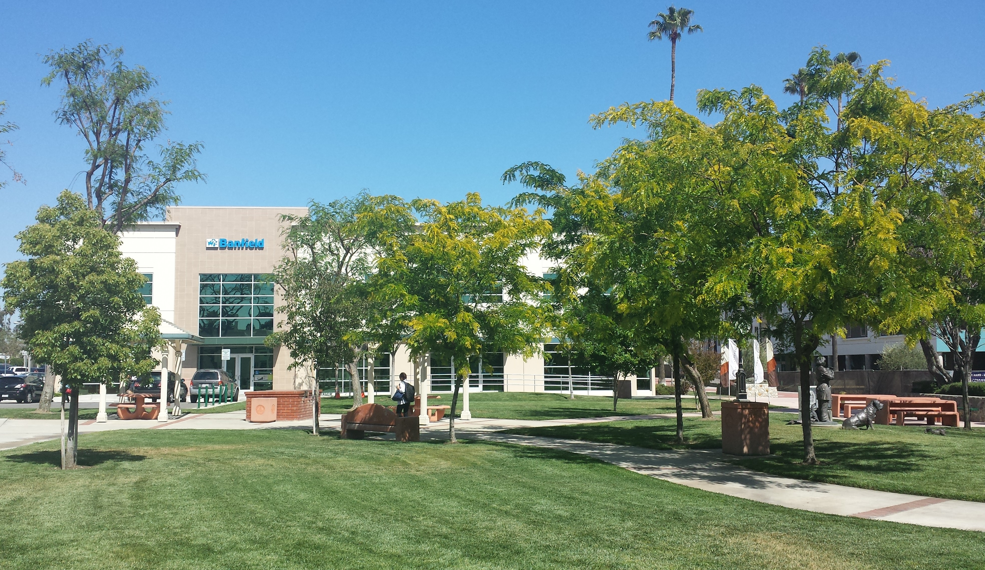 Ethan Allen Park on the campus of Western University of Health Sciences in Pomona, California. The WesternU Veterinary Clinic is seen in the background.